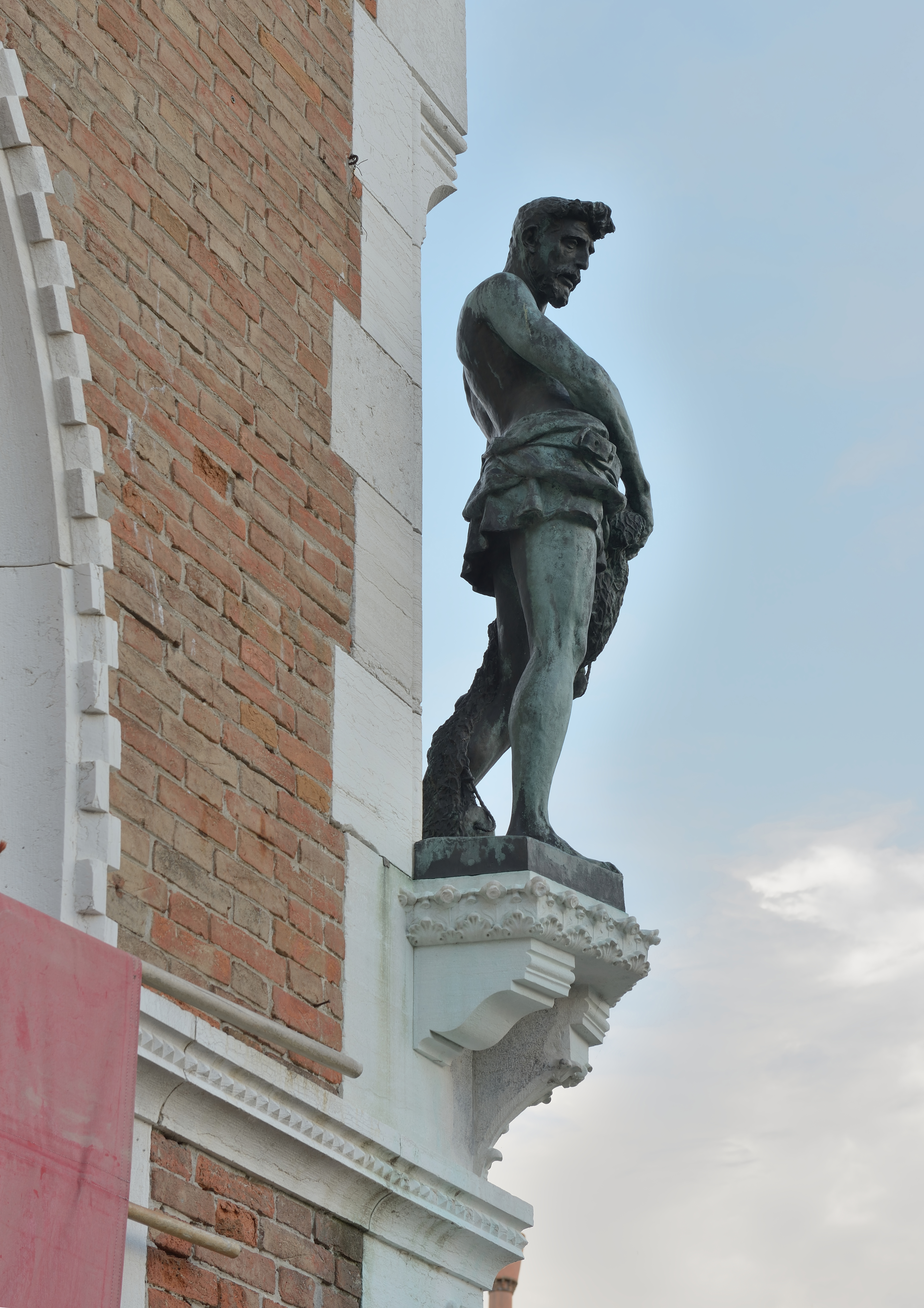 Bronze statue "the fisher" by Cesare Laurenti at the Pescaria fish market (Gothic Revival, 20th century) in Venice